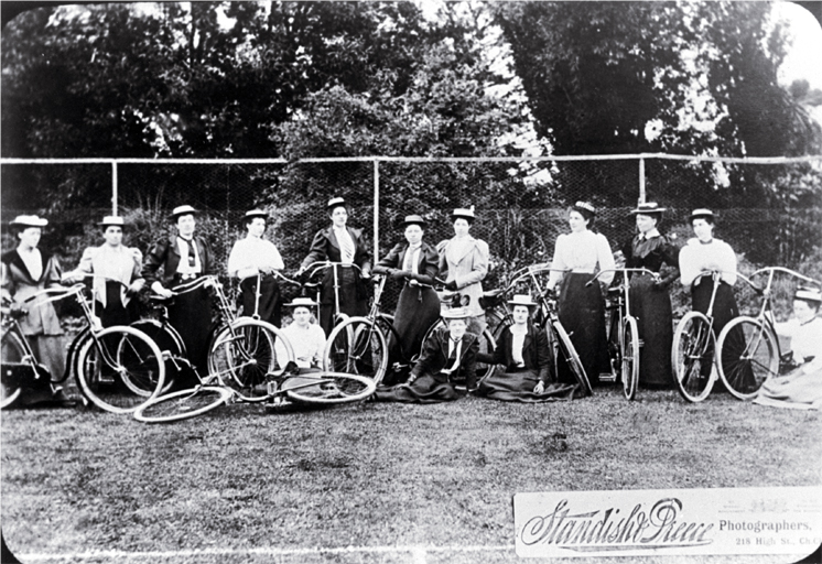 The Atalanta Ladies' Cycling Club [ca. 1892]. Christchurch City Libraries CCL-KPCD1-IMG0068.